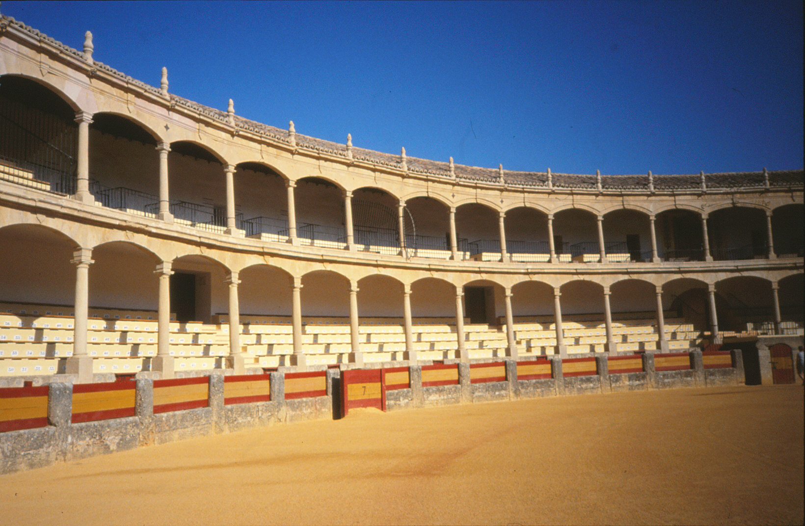 The bullfighter arena in Ronda, Andalucia, Espana. September 15, 2001.